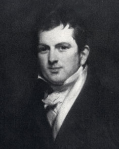 19th century depiction of James Morrison (1789-1857)